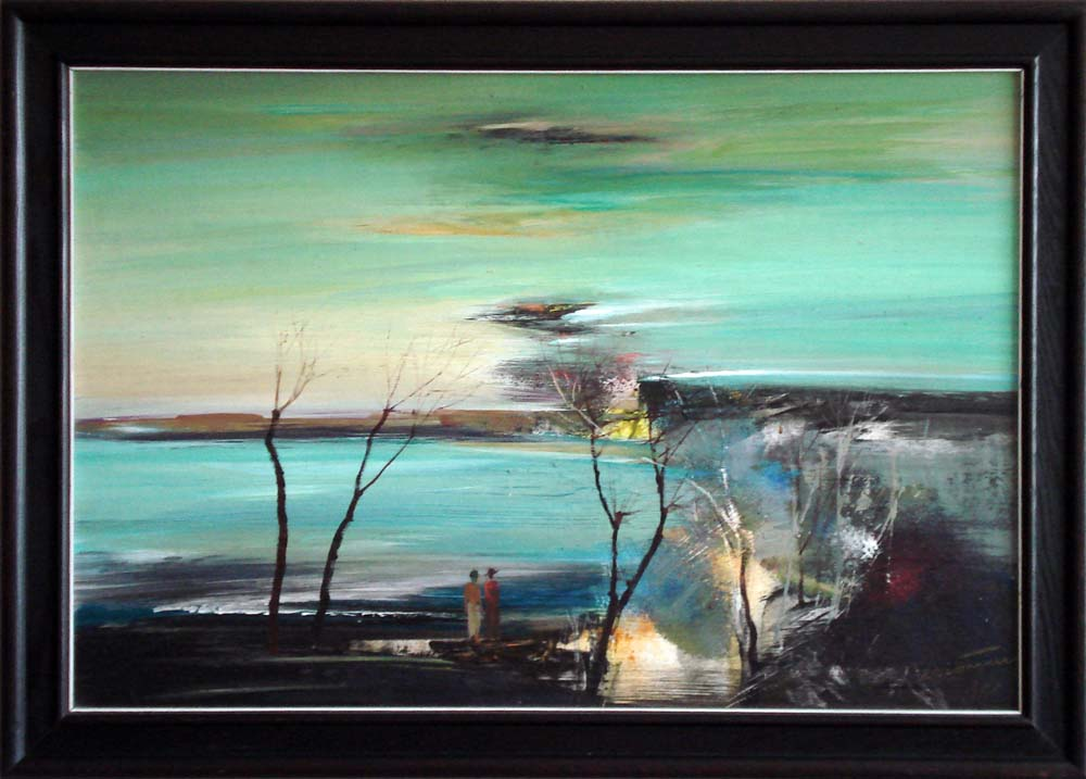 Lakeside. István Zsignár (hungarian painter, 1990, oil, 48×70 cm) Own property